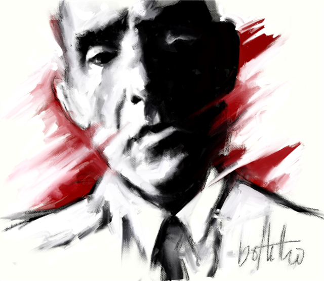 Alves Redol - Celebrating his 100th birth anniversary portraited by Bottelho.